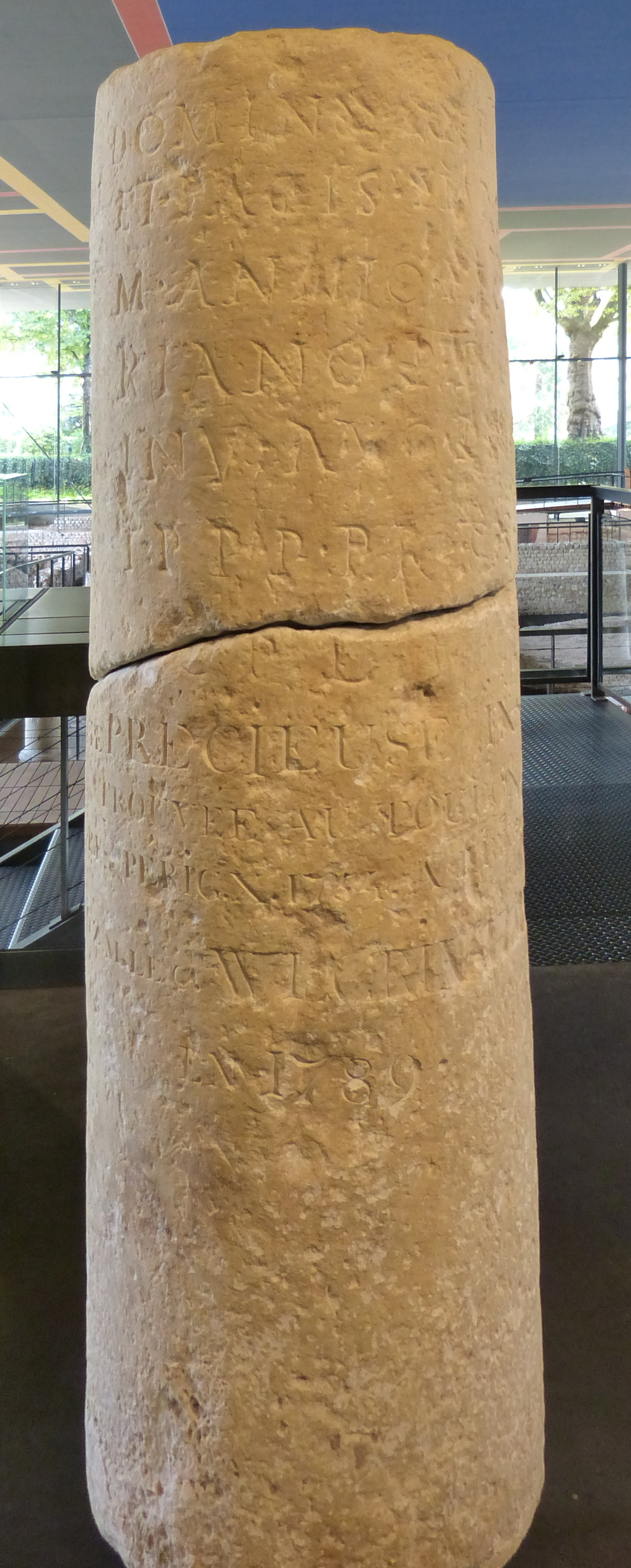 Périgueux ( Dordogne ). Vesunna-Museum: Mile stone set under the reign of Roman emperor Florianus ( 276 .AD ): Domino orbis / et pacis Imp(eratori) C(aesari) / M(arco) Annio Flo/riano P(io) F(elici) / Inv(icto) Aug(usto) p(ontifici) m(aximo) / t(ribunicia) p(otestate) p(atri) p(atriae) proco(n)s(uli) / c(ivitas) P(etrucoriorum) l(ibera)